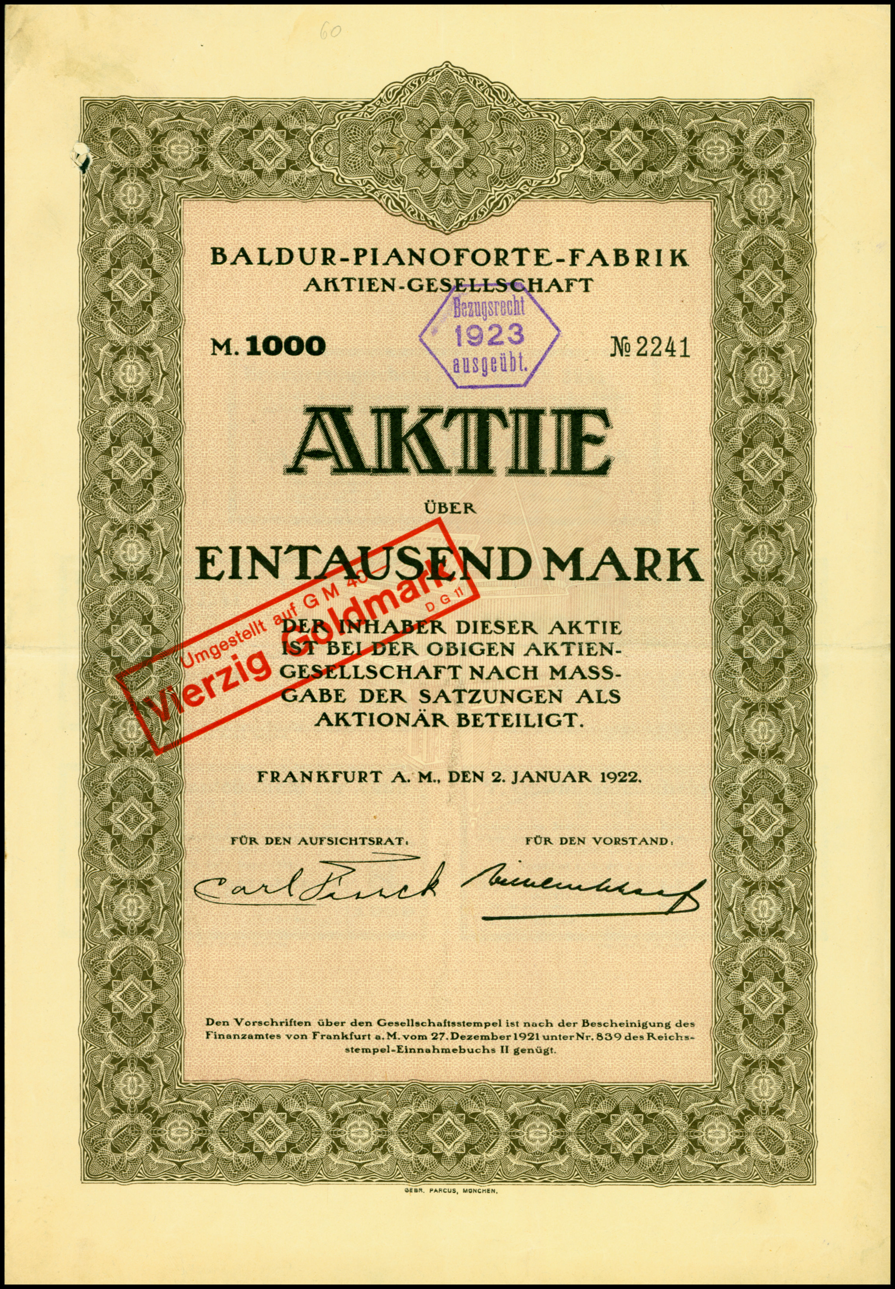 Share of the Baldur-Pianoforte-Fabrik AG vom 2. January 1922